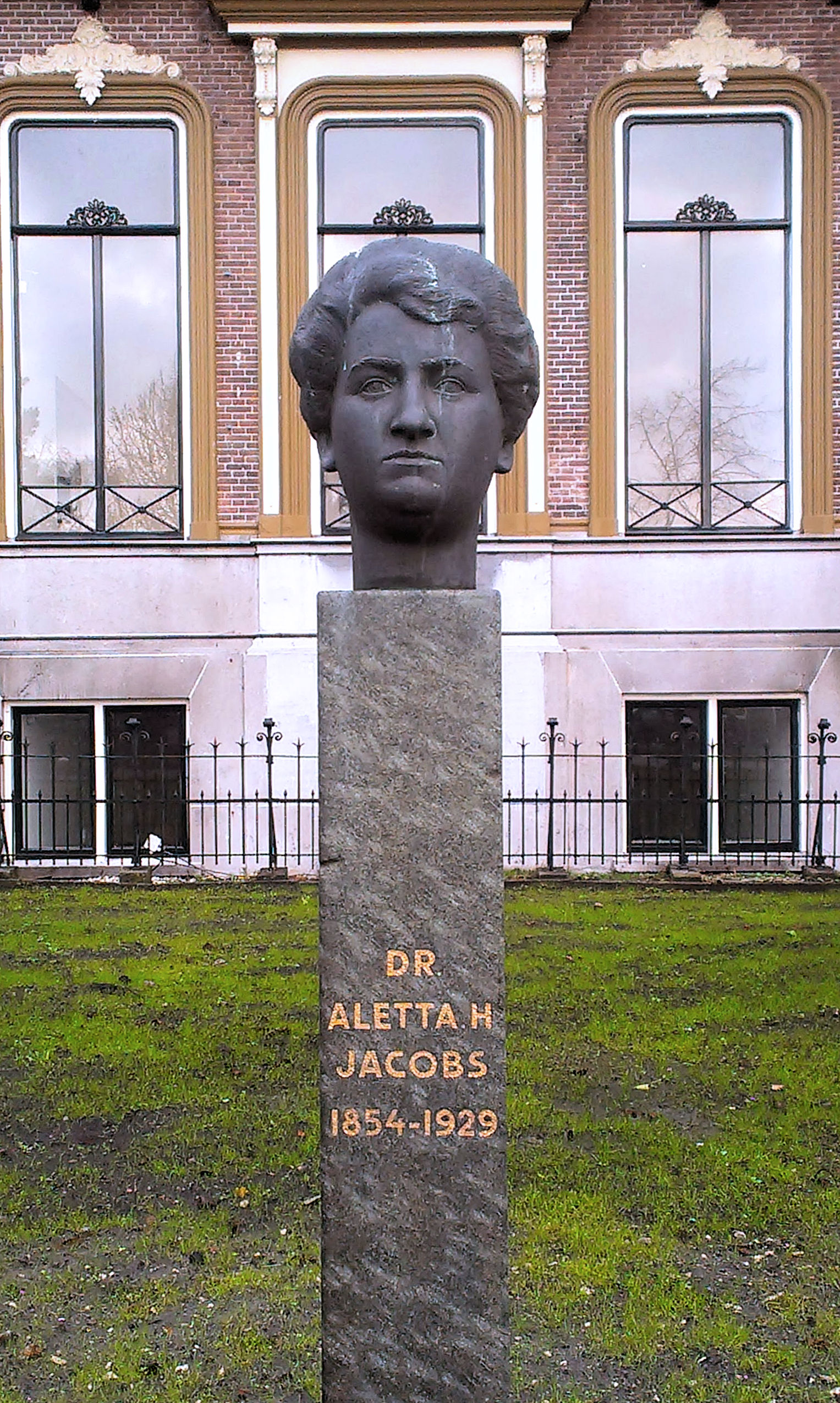 Bust of Dr. Aletta Jacobs in Sappemeer (NL) in front of the school she was in in this village